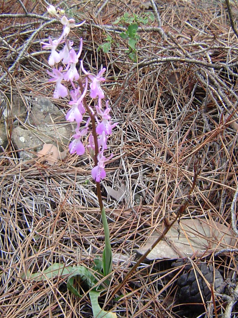 Orchis spec. at Paphos forest, Cyrpus, 2004